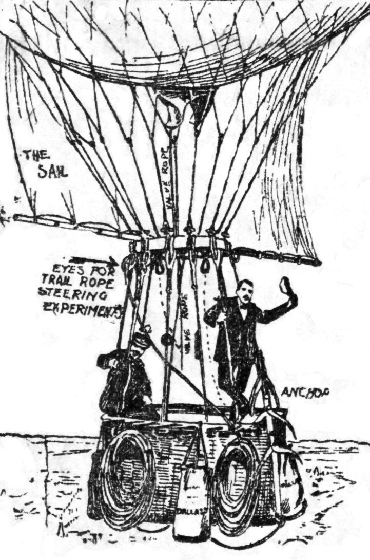 The illustration for the successful crossing of the English Channel in a balloon by Percival G. Spencer (1864–1913) on December 20, 1898.